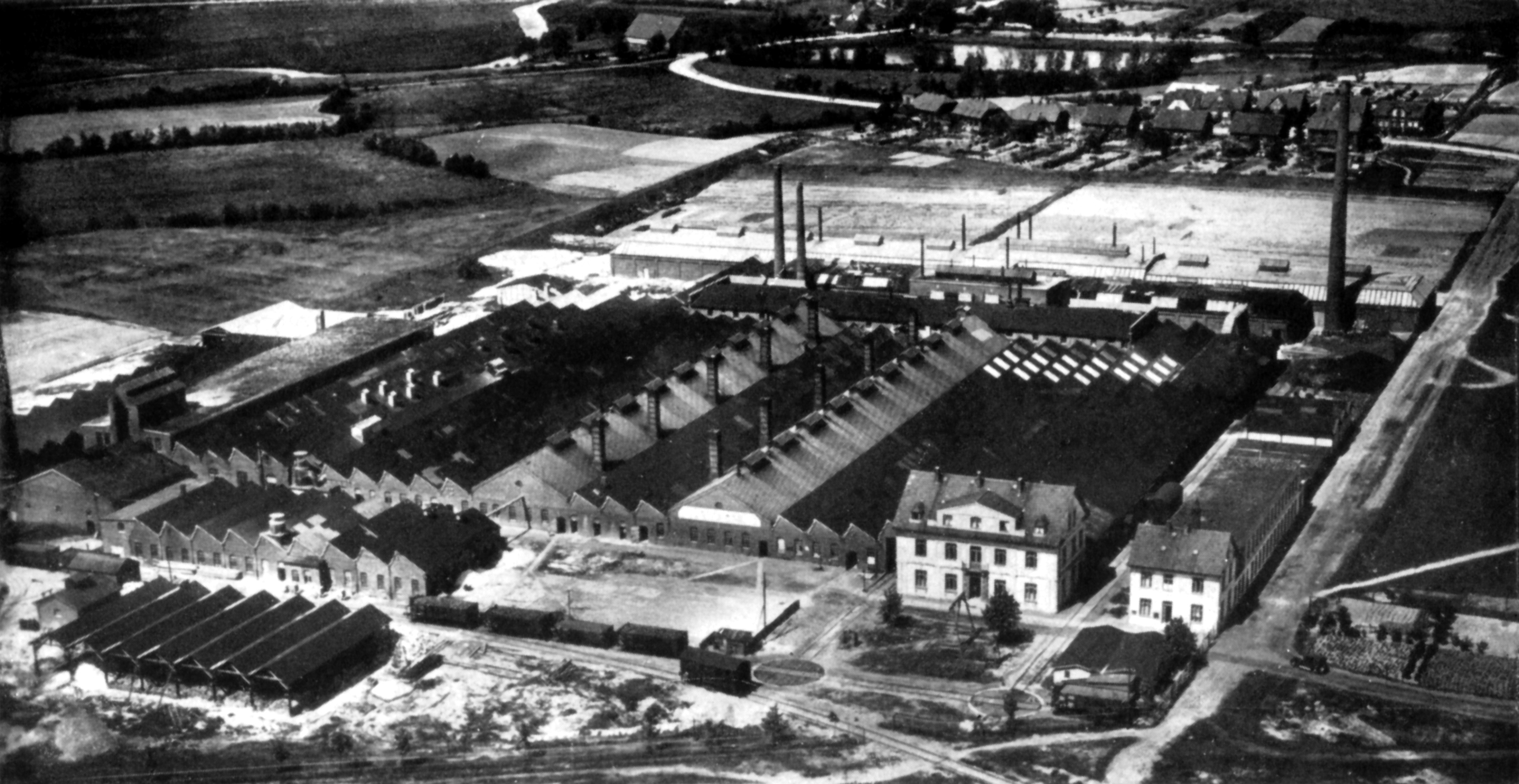 Villeroy & Boch ceramics factory in Lübeck-Dänischburg; built in 1906, demolished in 2012